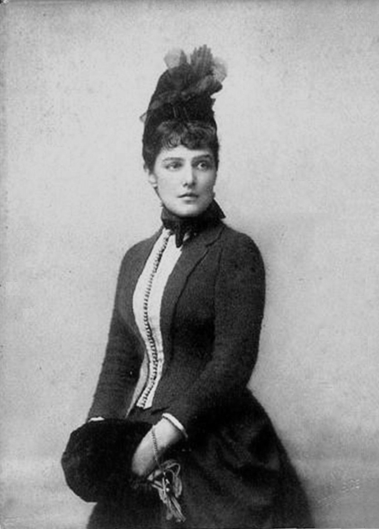 Jennie Churchill, née Jeanette Jerome, formally Lady Randolph Churchill (born 9 January 1854, Brooklyn, New York, Union States of America and died 29 June 1921, London, England), American society figure, is the wife of Lord Randolph Churchill and the mother of British Prime Minister Sir Winston Churchill. Jennie Jerome married 15 April 1874 at the Embassy of Great Britain and Ireland rue du Faubourg Saint-Honoré in Paris in the 8th arrondissement, with Lord Randolph Churchill (1849-1895), third son of John Spencer-Churchill, 7th Duke of Marlborough.